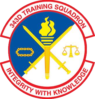 Emblem of the 343rd Training Squadron, a squadron of the United States Air Force